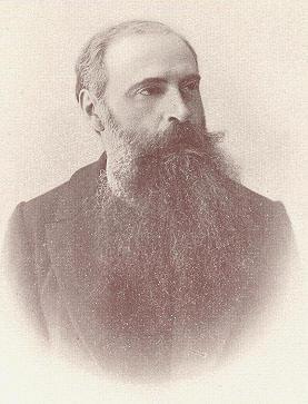 en:Stephanos Skouloudis (1838–1928)